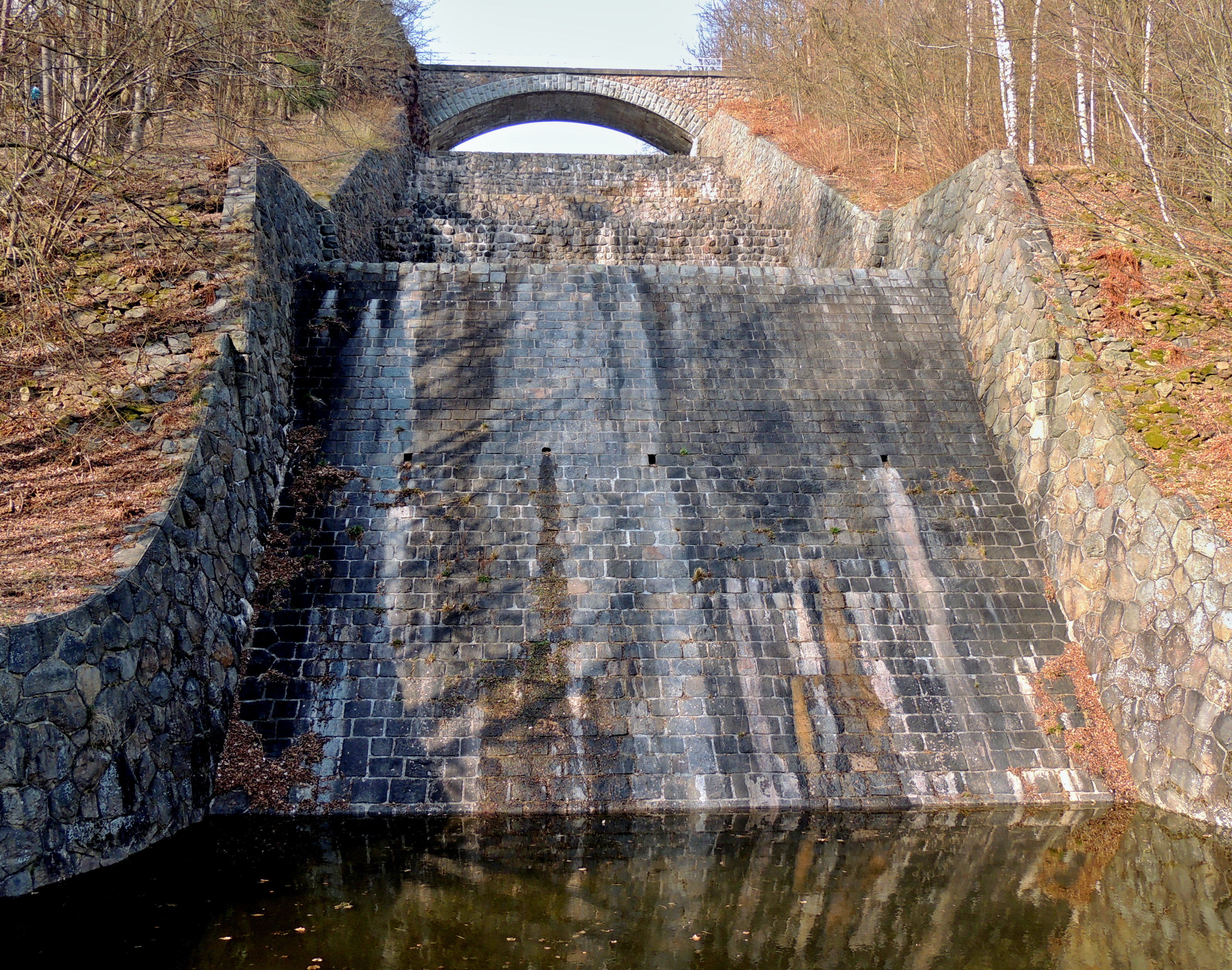 Water reservoir Seč. Slope of the safety spill of water under the stone cascade of Water reservoir Seč. Down is the river Chrudimka below the dam. Photo location: Czech Republic, Pardubice Region, town Seč, Seč Dam, "Kameničská" highlands.